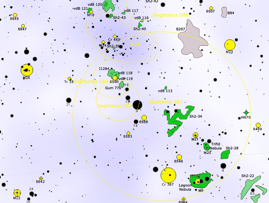 Map of Sagittarius OB7.